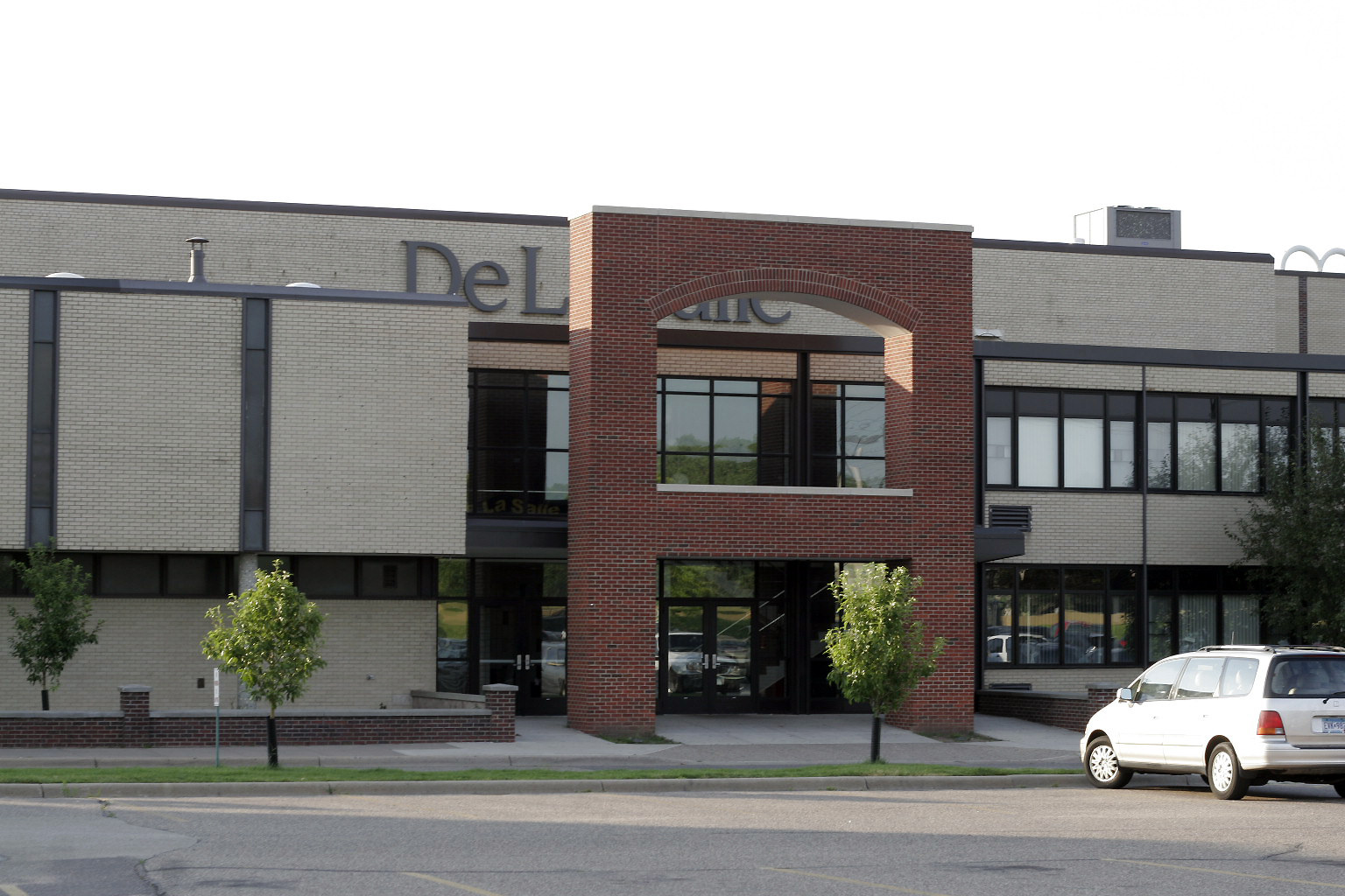 DeLaSalle High School, Minneapolis, in July 2006